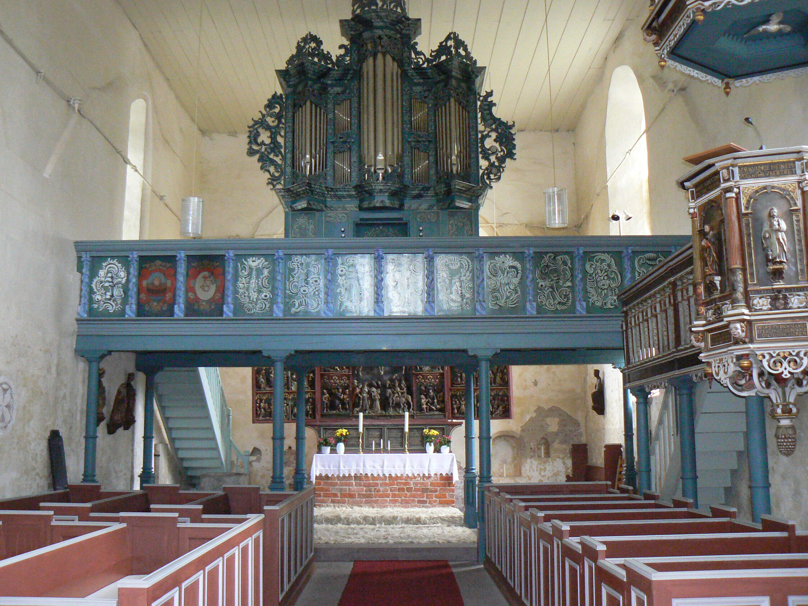 Church in Funnix, Wittmund, Lower Saxony, Germany.